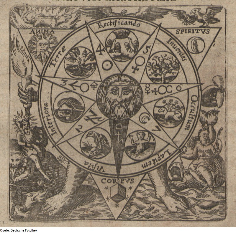 Original image description from the Deutsche Fotothek Theosophie & Alchemie